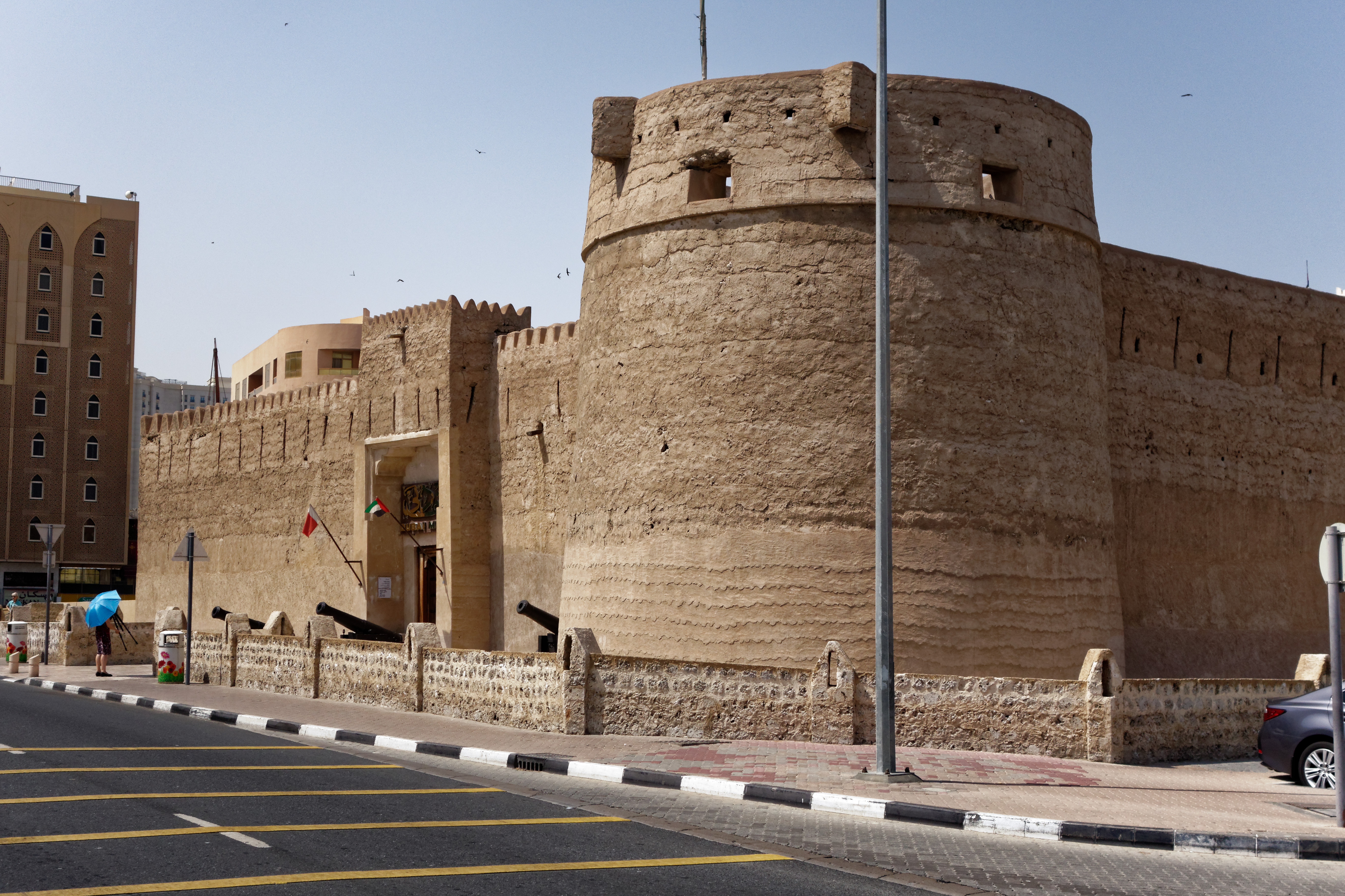 Al Fahidi Fort (also known as Dubai Fort)